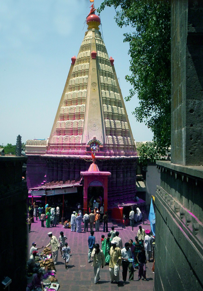 nilesh